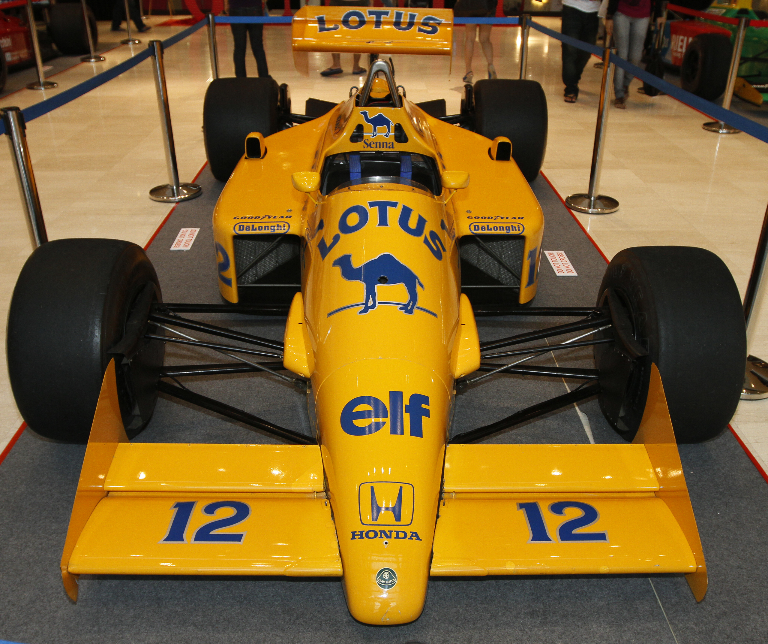 Pavilion Pit Stop 2010: Lotus 99T (Ayrton Senna's car)